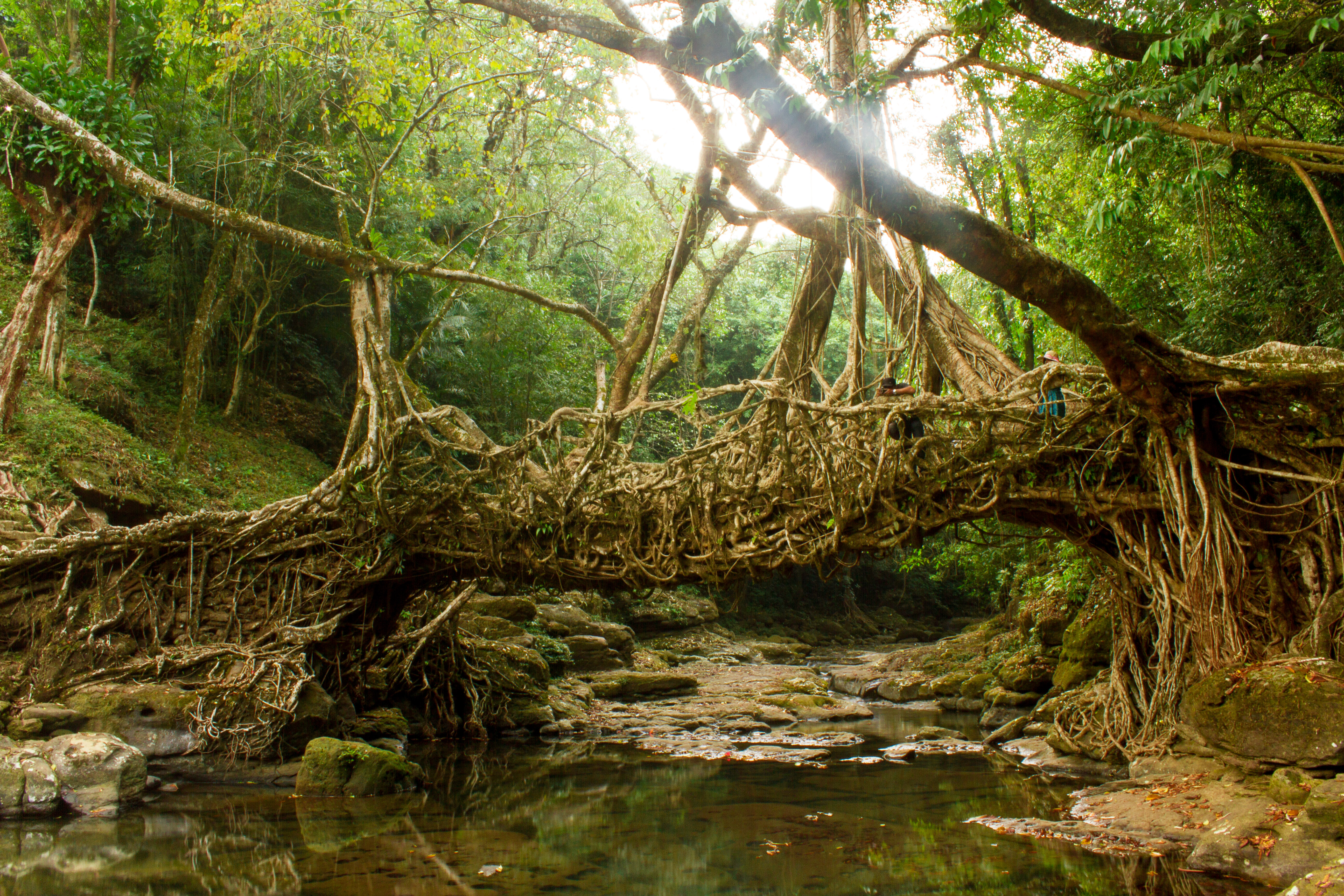 There's a large living root bridge near Mawlynnong village -- and it's readily accessible. Renowned for being declared the cleanest village in Asia, scenic Mawlynnong also promotes itself as "God's Own Garden". The village is located near the Bangladesh border, around three hours from Shillong. To reach the root bridge, drive to Riwai village, a few kilometers before Mawlynnong. From there, it's approximately a 15 minute walk one way. Meghalaya's double-decker and single-decker root bridges are unique in the world and are a sight to behold. The bridges are tangles of massive thick roots, which have been intermingled to form a bridge that can hold several people at a time. Khasi people have been trained to grow these bridges across the raised banks of streams to form a solid bridge, made from roots. The living bridges are made from the roots of the Ficus elastica tree, which produces a series of secondary roots that are perched atop huge boulders along the streams or the riverbanks to form bridges. The root bridges, some of which are over a hundred feet long, take ten to fifteen years to become fully functional, but they’re extraordinarily strong – strong enough that some of them can support the weight of fifty or more people at a time. The bridges are alive and still growing and gain strength over time.